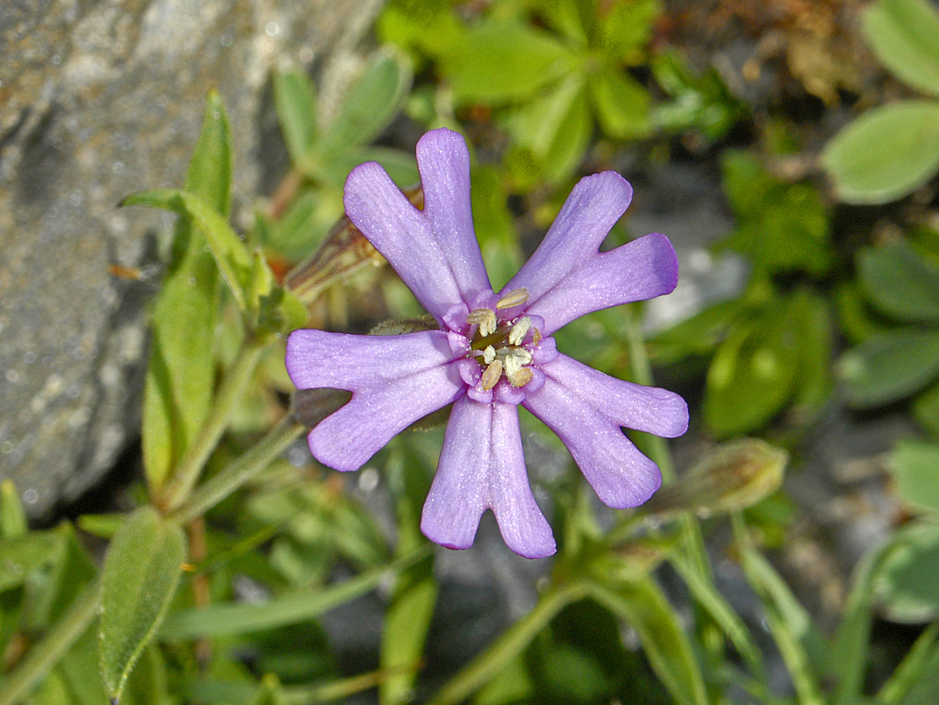 Flower of Silene vallesia at the Giardino Botanico Alpino Chanousia